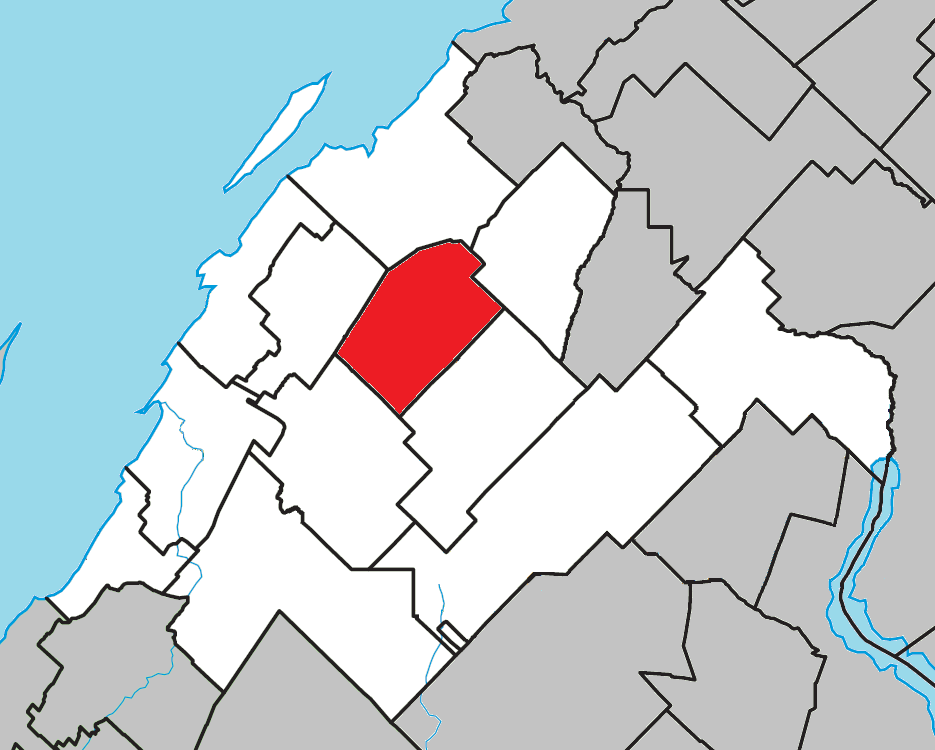 Location of Saint-Épiphane, Quebec within Rivière-du-Loup Regional County Municipality.